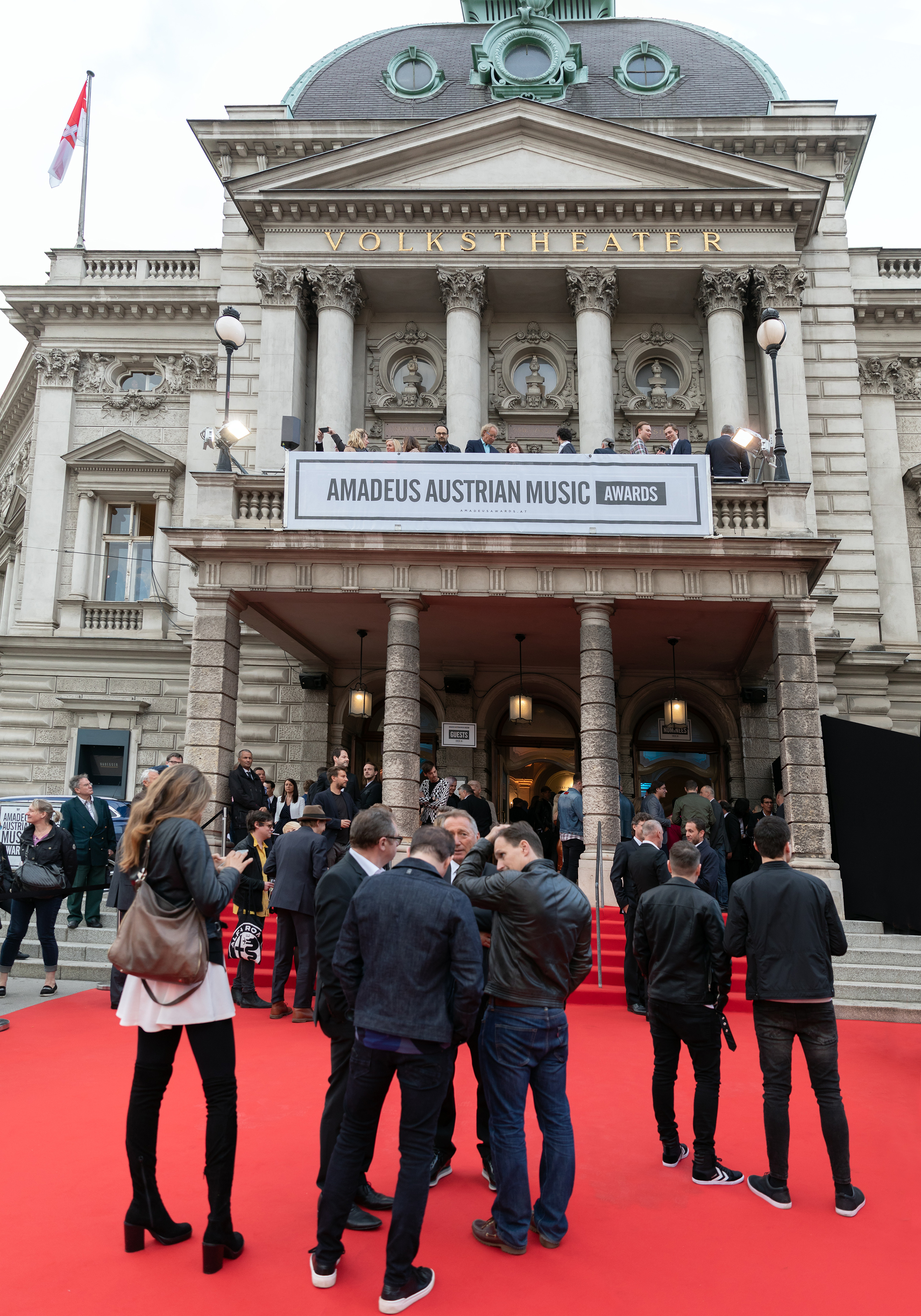 Amadeus Austrian Music Award 2018 at Volkstheater in Vienna.